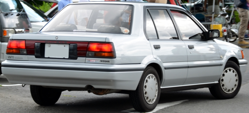 Nissan Pulsar M1 Excellence